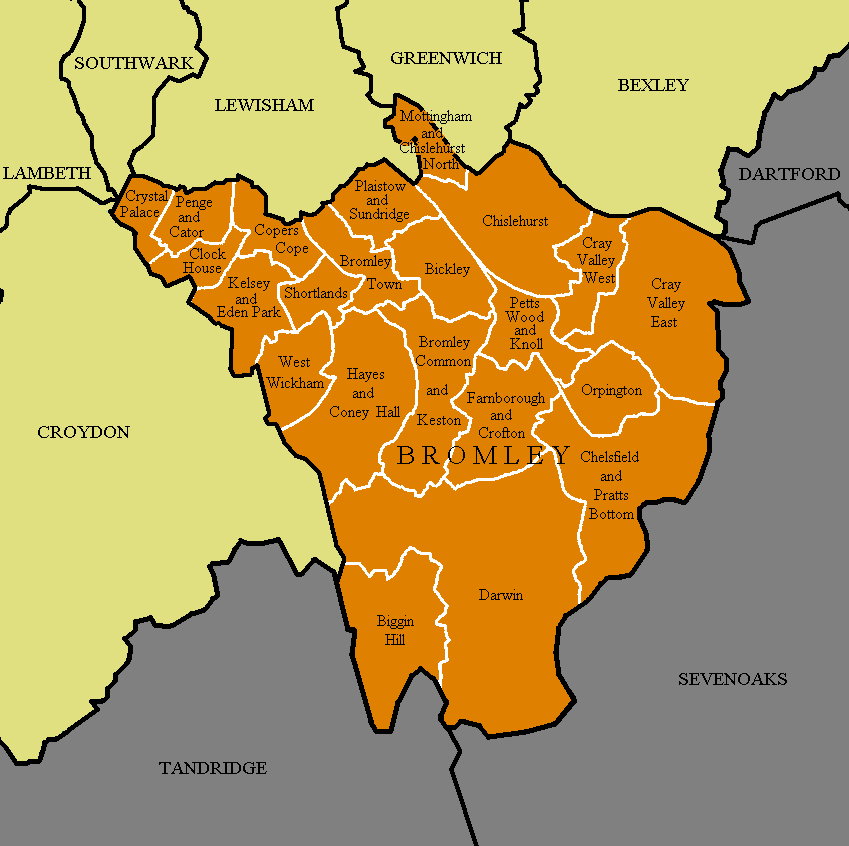 The 22 wards of the London Borough of Bromley (orange) and the surrounding London boroughs (yellow) and districts outside Greater London (grey). Image I made showing the wards of the London Borough of Bromley. Wards of the London Borough of Bromley.